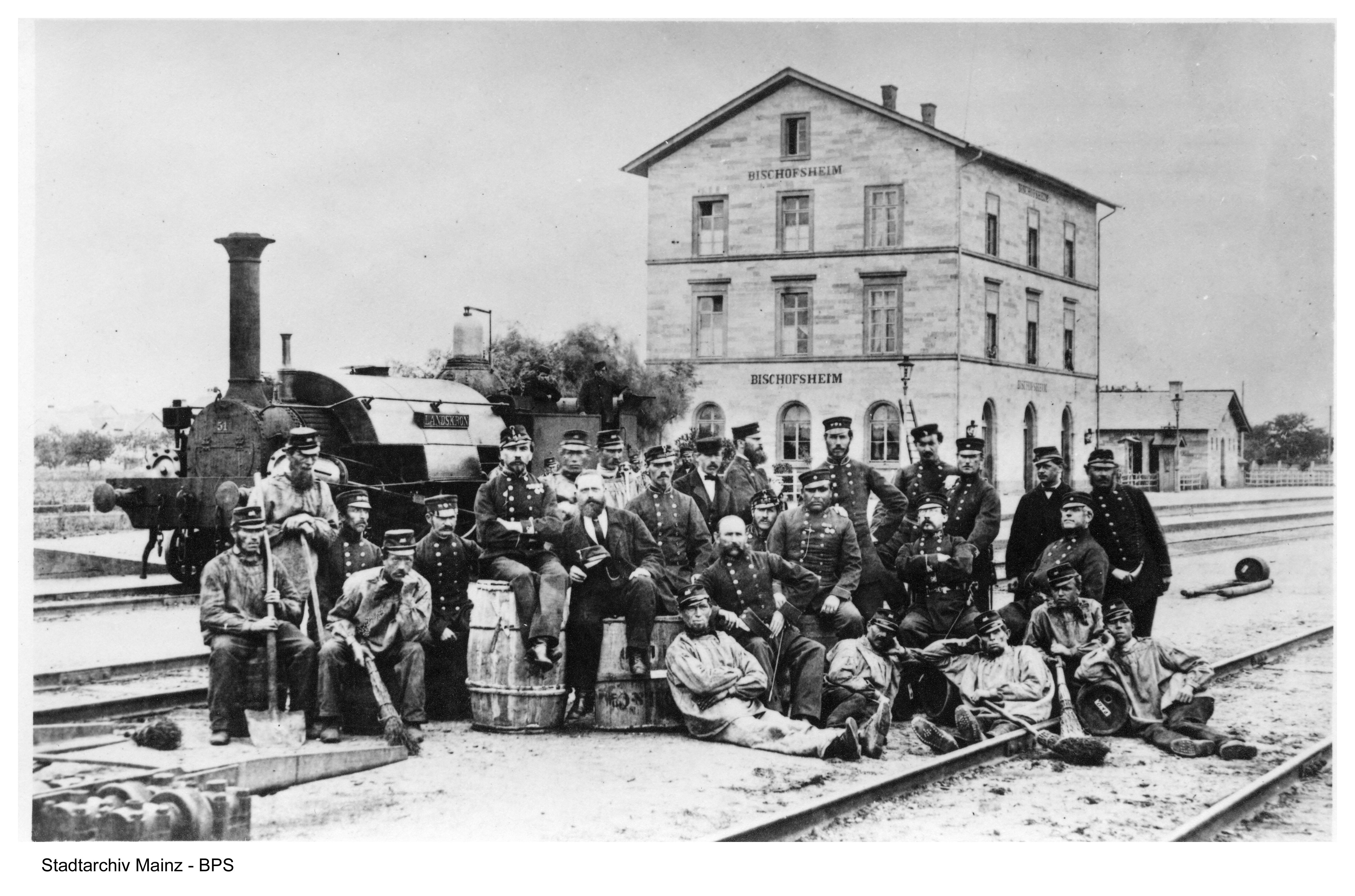 Old railway station of Mainz-Bischofsheim with locomotive "Landskron" and people working there. Taken 1867.